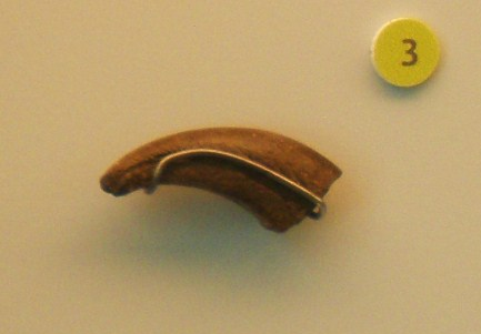 Holotype (manual ungual phalanx, i.e. a ‘claw bone’ of the forelimb) of Megalosaurus lonzeensis Dollo 1903 from the Upper Cretaceous of Belgium, today regarded as belonging to a theropod dinosaur of uncertain affinities. The specimen was captured on display at the Musee d’Histoire Naturelle, Brussels.